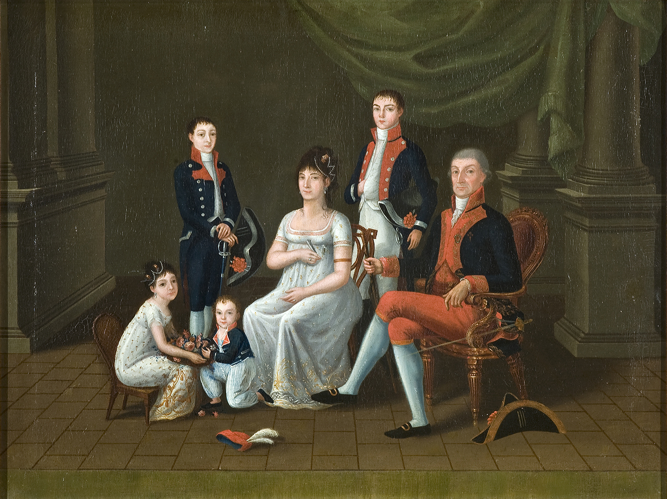 The family of José de Iturrigaray, Spanish Viceroy of Mexico